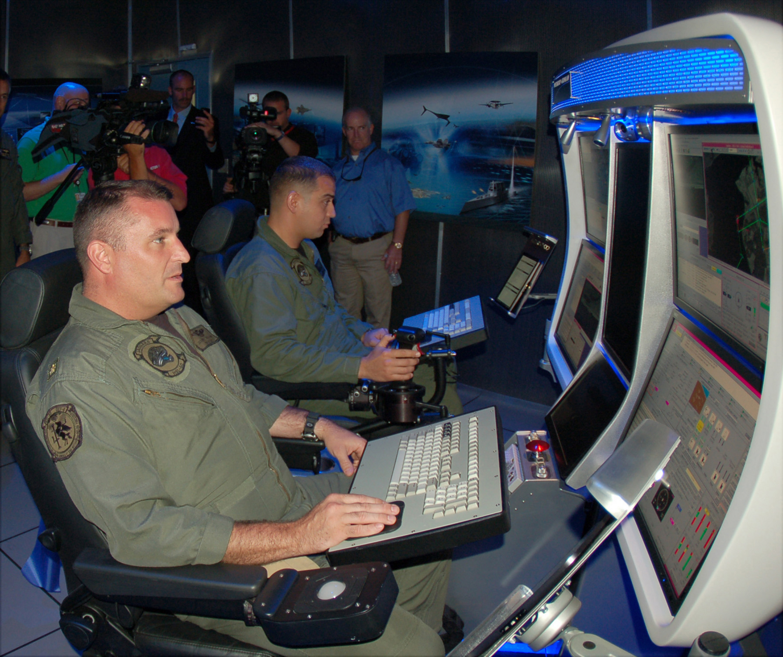 JACKSONVILLE, Fla. (July 10, 2012) Lt. Cmdr. Jeremy DeYoung and Naval Aircrewman 1st Class David Berber, both reservists attached to Helicopter Anti-Submarine Squadron Light (HSL) 60, demonstrate the MQ-8B Fire Scout flight simulator to media representatives at Naval Air Station Jacksonville. (U.S. Navy photo by Clark Pierce/Released) 120710-N-YZ910-001 Join the conversation navylive.dodlive.mil